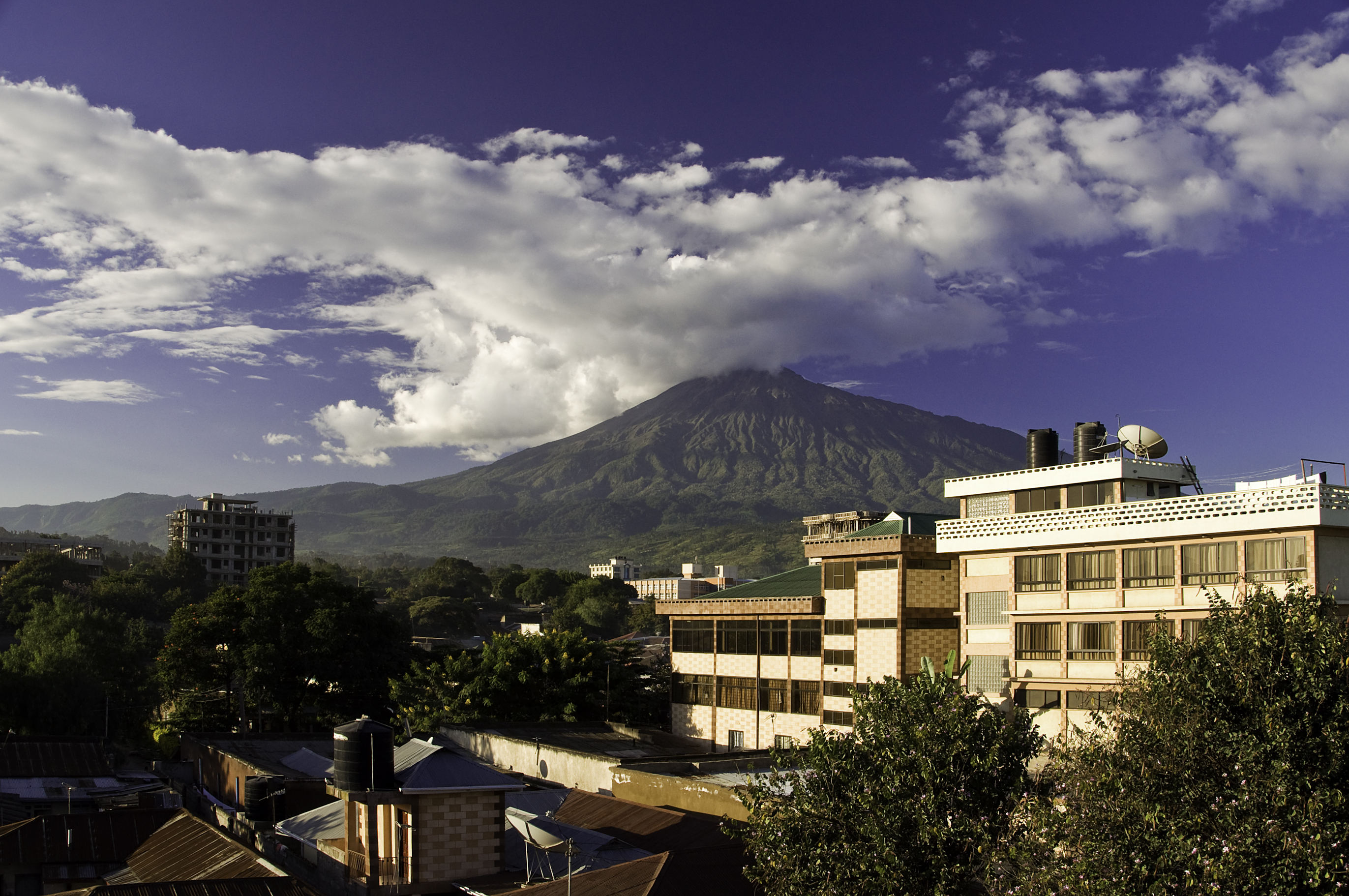 Look on Mt. Meru from the roof terrace of Jevas Hotel; Arusha, Tanzania